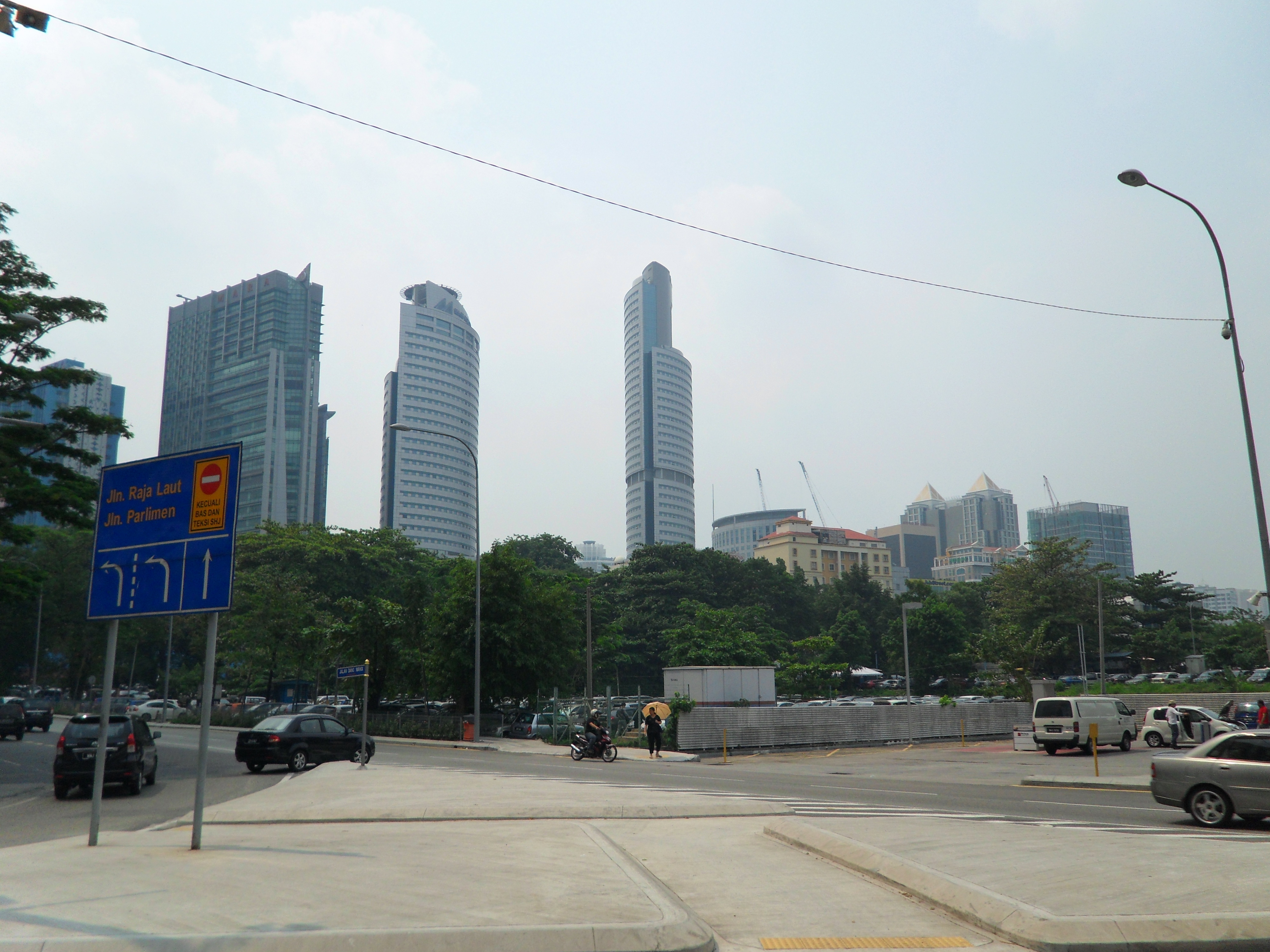 View from Jalan Dang Wangi, Kuala Lumpur.